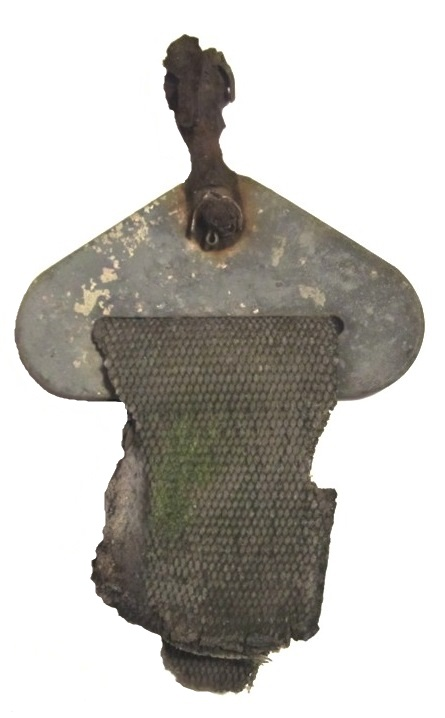 Elba Island